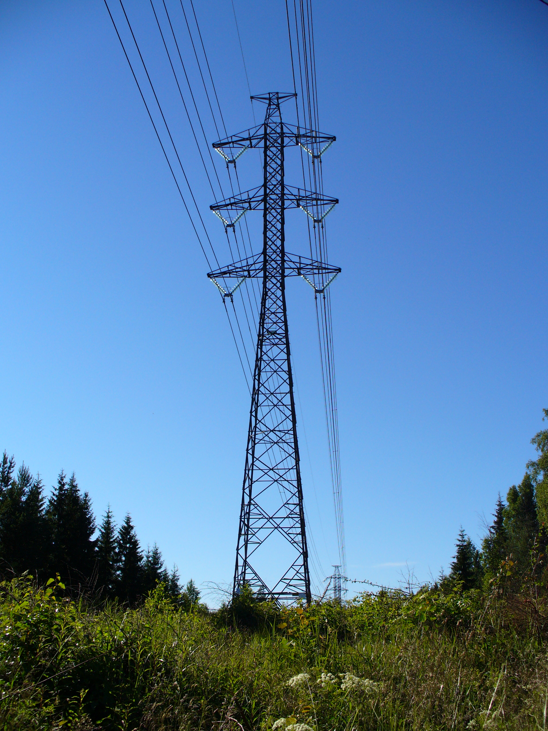 Electrical wiring at the outskirts of Helsinki, Finland.